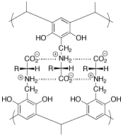 Yes